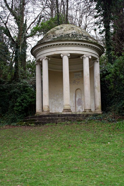 Milton's Temple An Ionic temple built in 1755 in Mount Edgcumbe Park. On the back wall is a quote from Paradise Lost: "Over head up grow Insuperable height of loftiest shade Cedar and Fir and Pine and branching Palm A sylvan scene and as the ranks ascend Shade above shade a woody theatre of stateliest view"